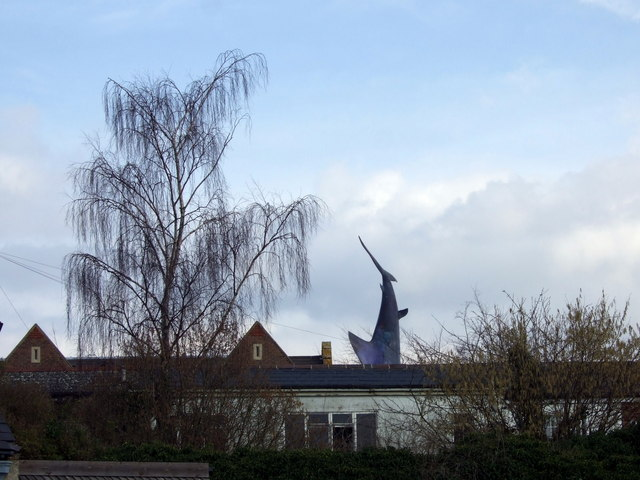 Shark on the skyline. The Headington Shark as viewed from Lime Walk. For info, see 1220282